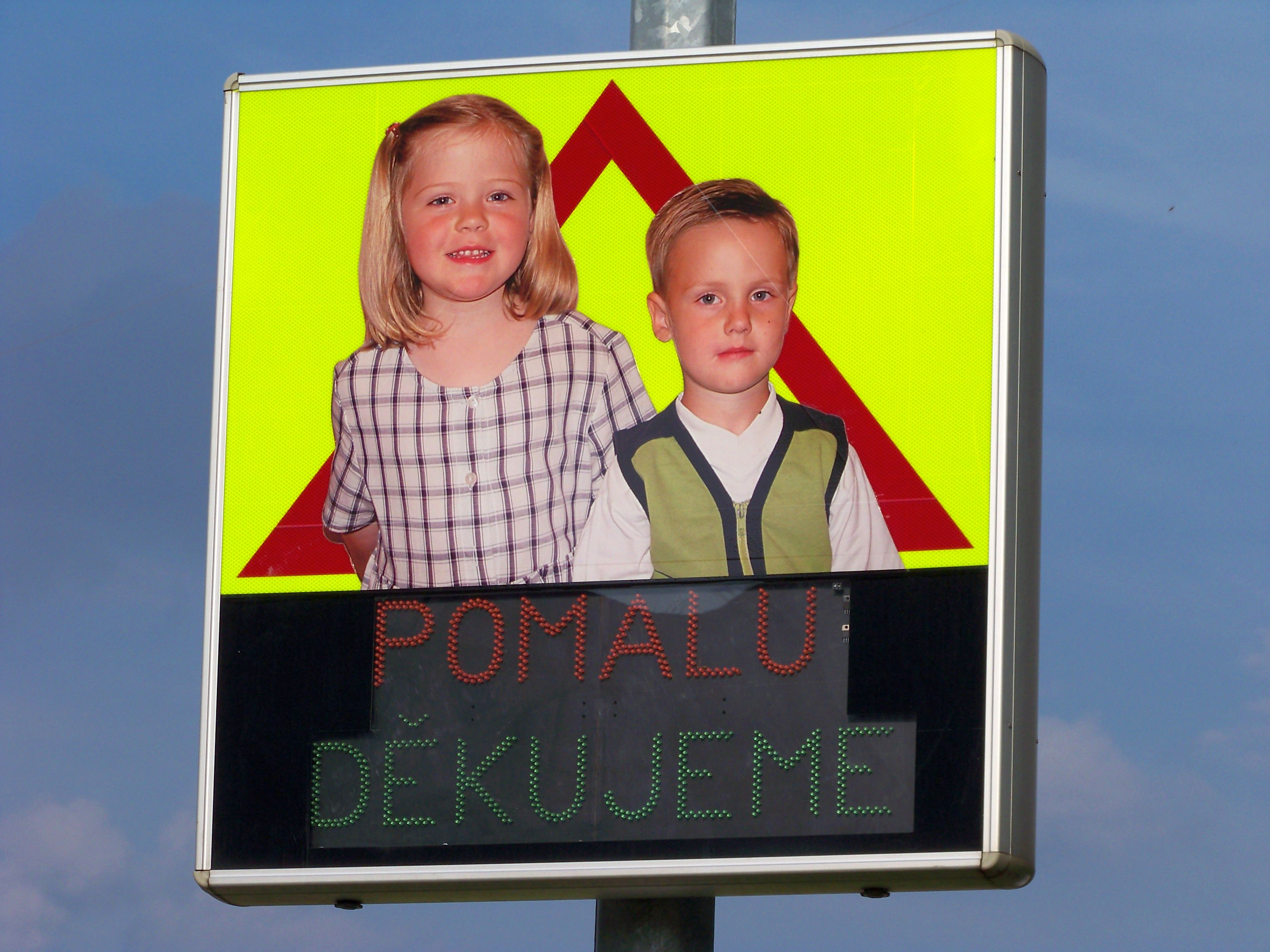 Chodov, Prague, the Czech Republic. Opatov Housing Estate, Ke Kateřinkám street, a children warning road sign.